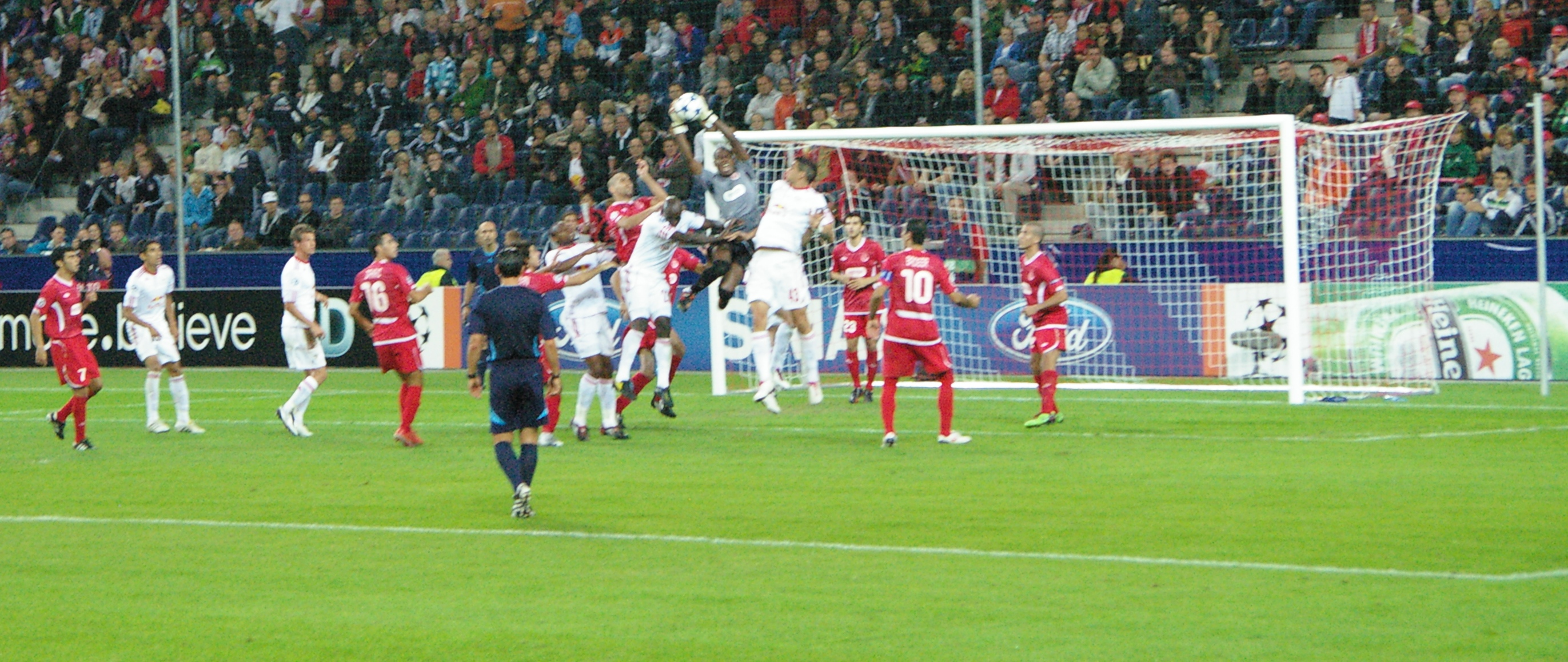 CL qualifing match